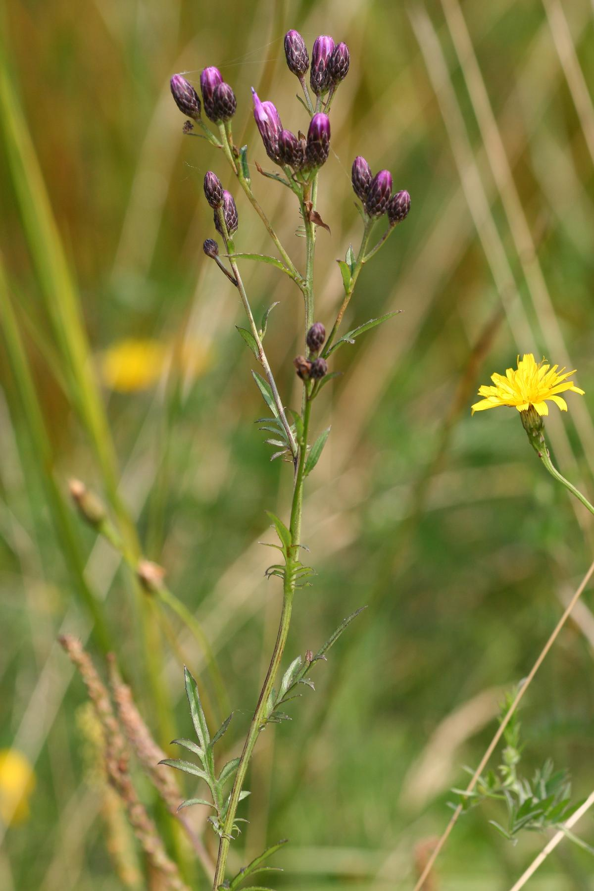 Färber-Scharte (Serratula tinctoria)